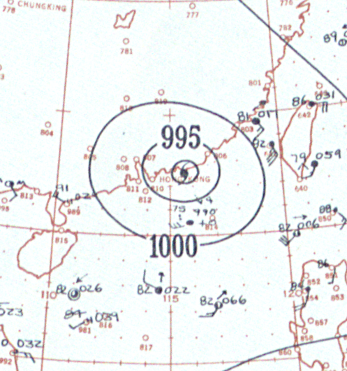 Surface analysis of a typhoon near Hong Kong on August 20, 1940. The same storm caused widespread flooding in Luzon.